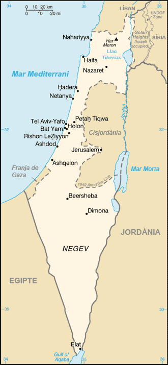 Map of Israel with names in Catalan